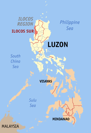 Map of the Philippines showing the location of Ilocos Sur